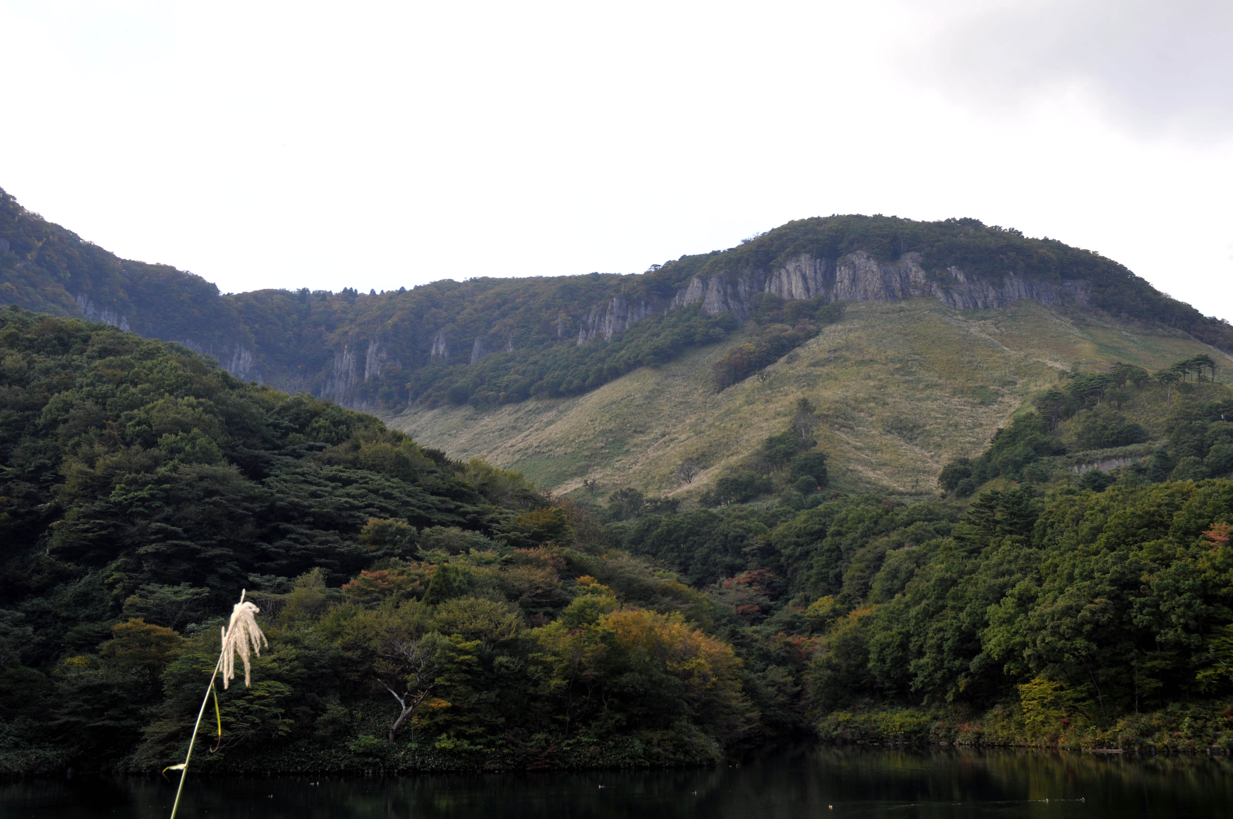 Mount Senjo seen from the east, in Tottori, Japan